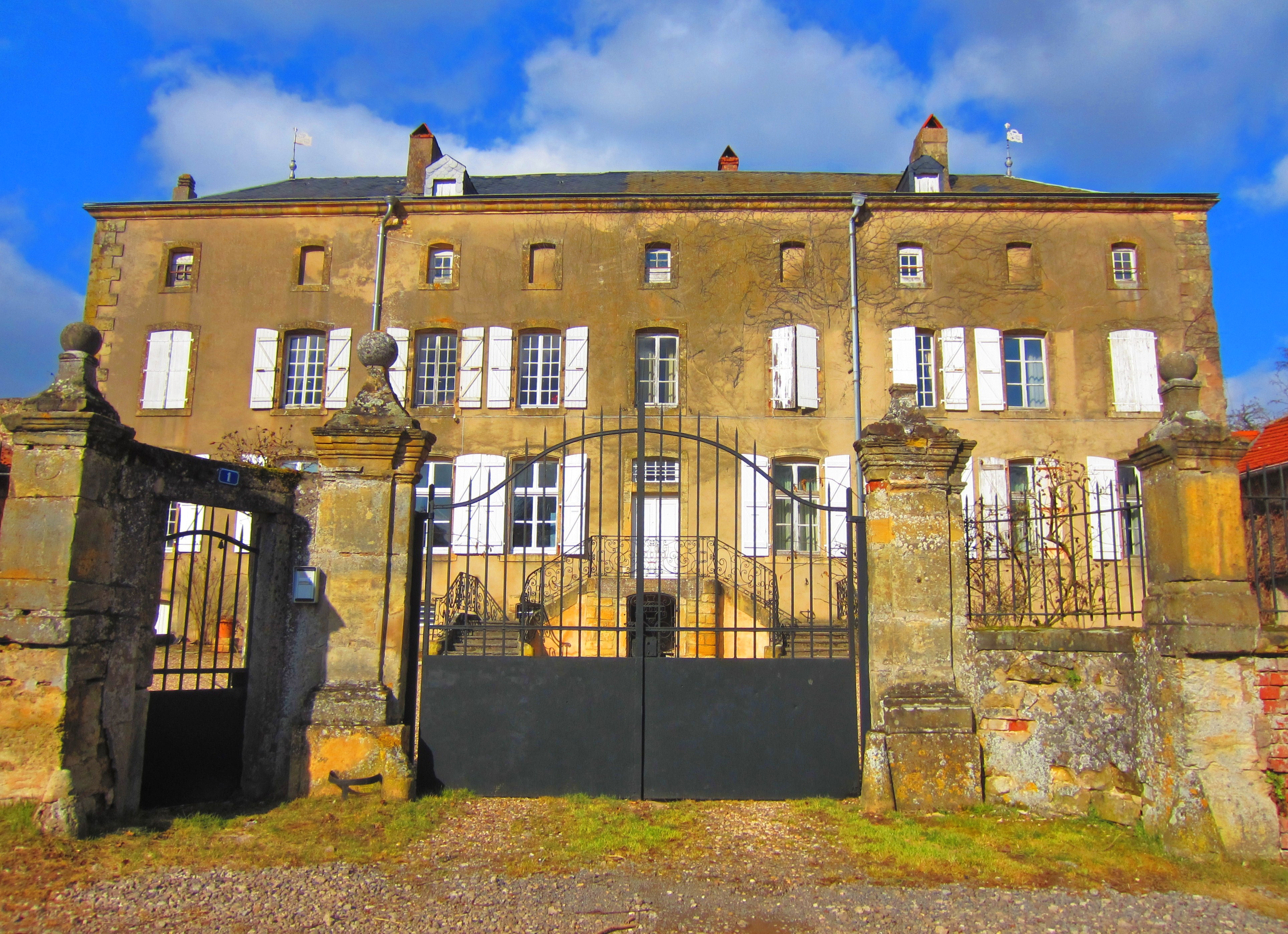 Charleville Bois castle